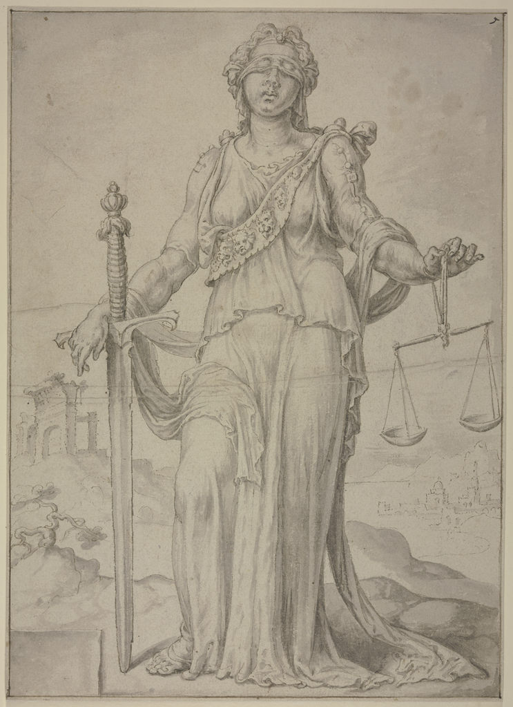 Justice